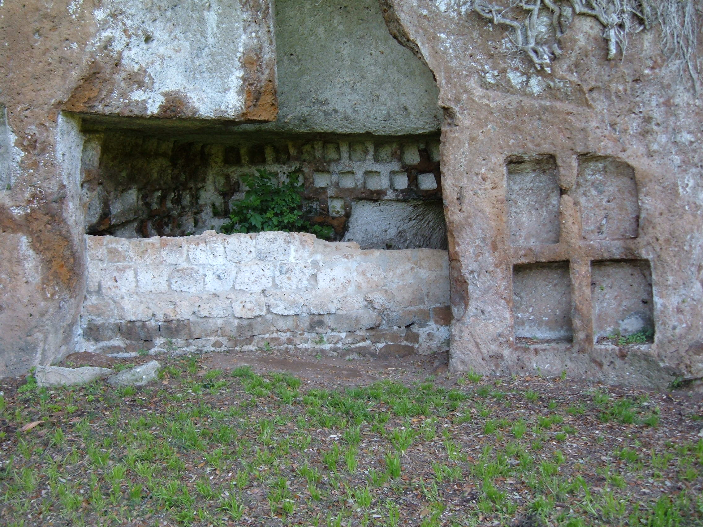 Necropolis of Sutri